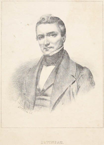 Louis-Joseph Papineau, 1840.